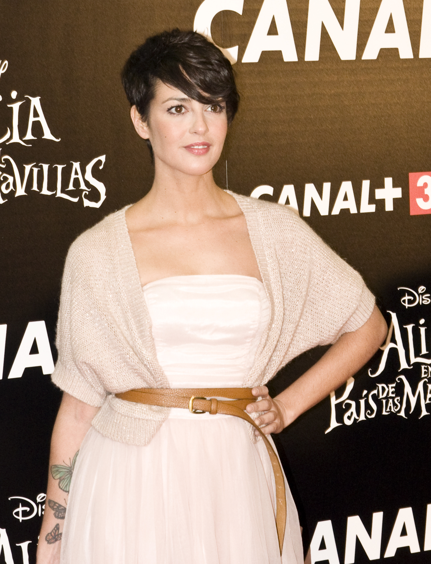 Vega Spanish vocalist at the photocall of Alice in Wonderland in 2010.